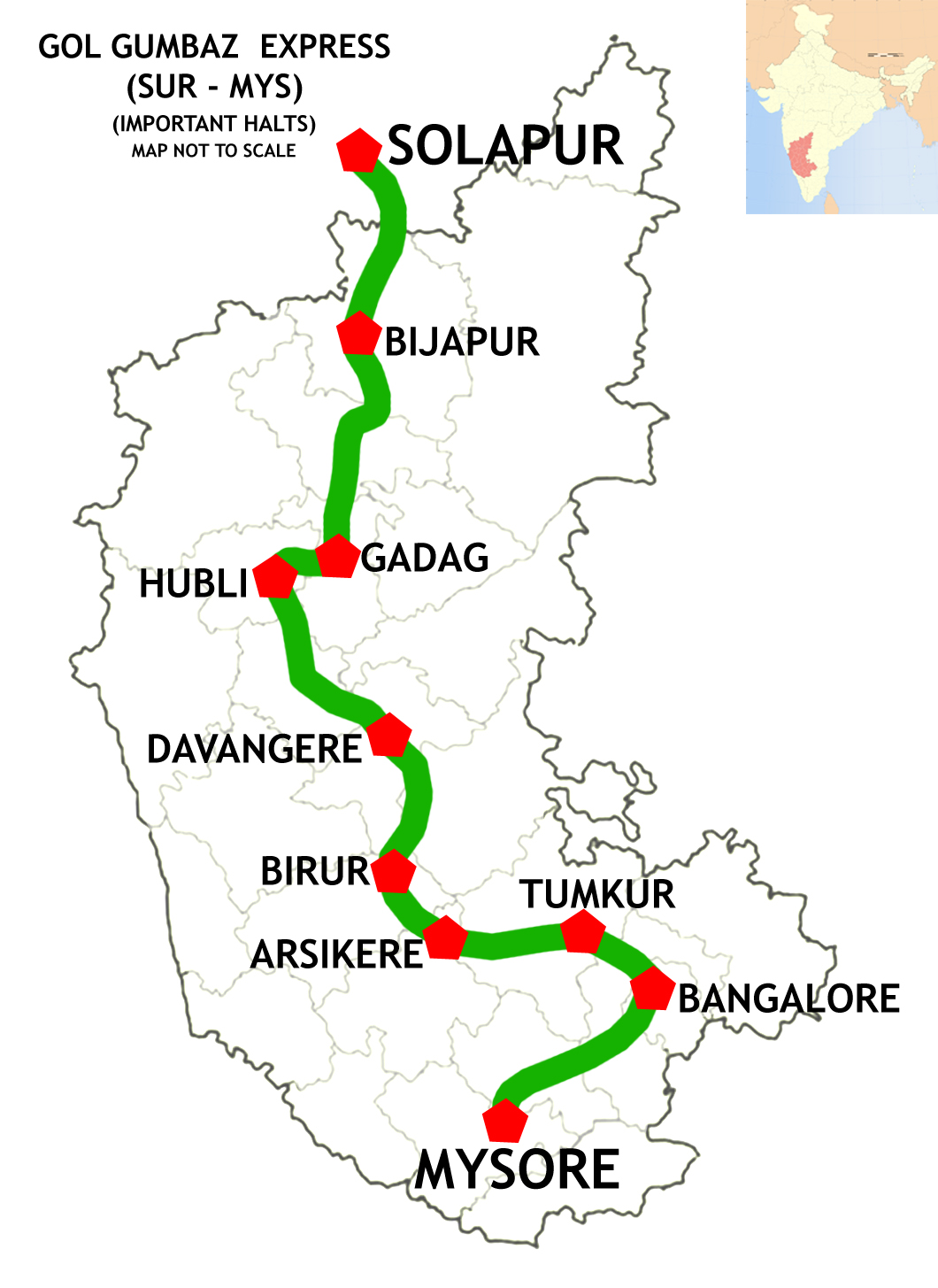 Gol Gumbaz Express (Solapur - Mysore) Route map